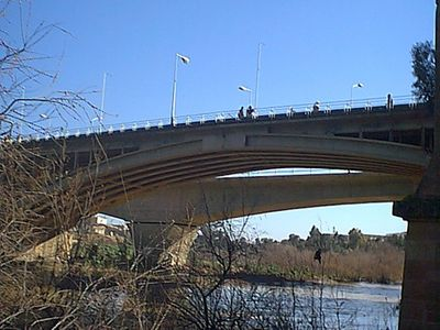 Description: Cheliff River Bridge nearby Ech Cheliff Copyright holder: Delta Soft Source/URL